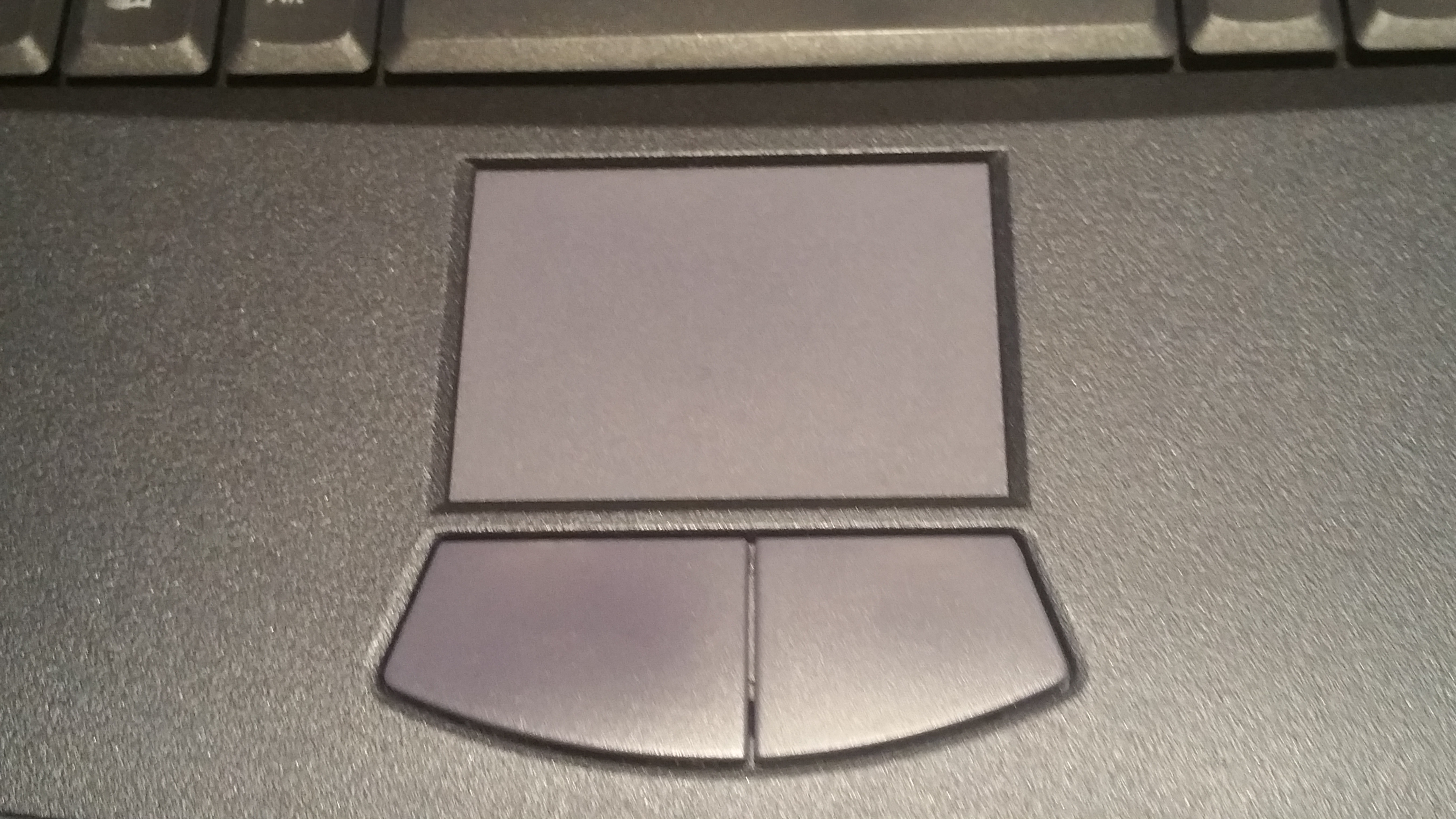 A touchpad on a Sony Vaio PCG-FX240 laptop.